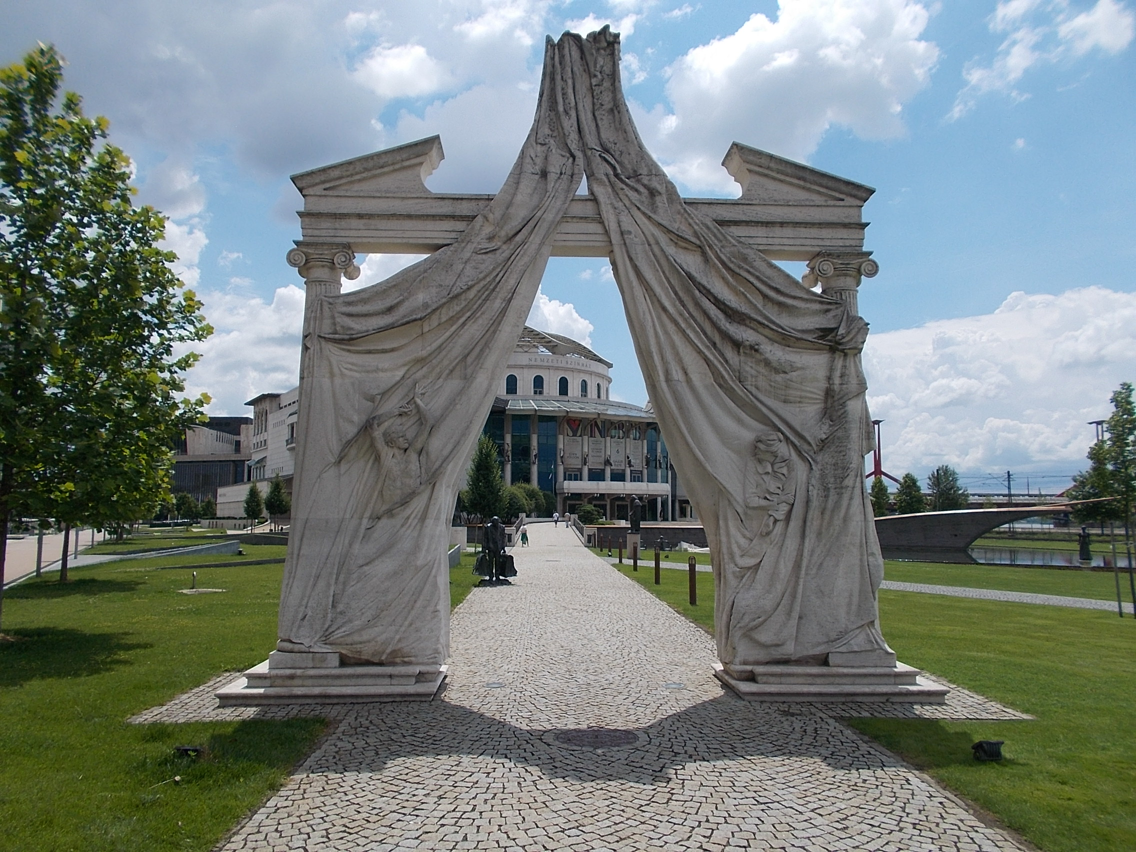 Sculpture decorated Park gate by Miklós Melocco in Bajor Gizi Park, Ferencváros district, Budapest, Hungary